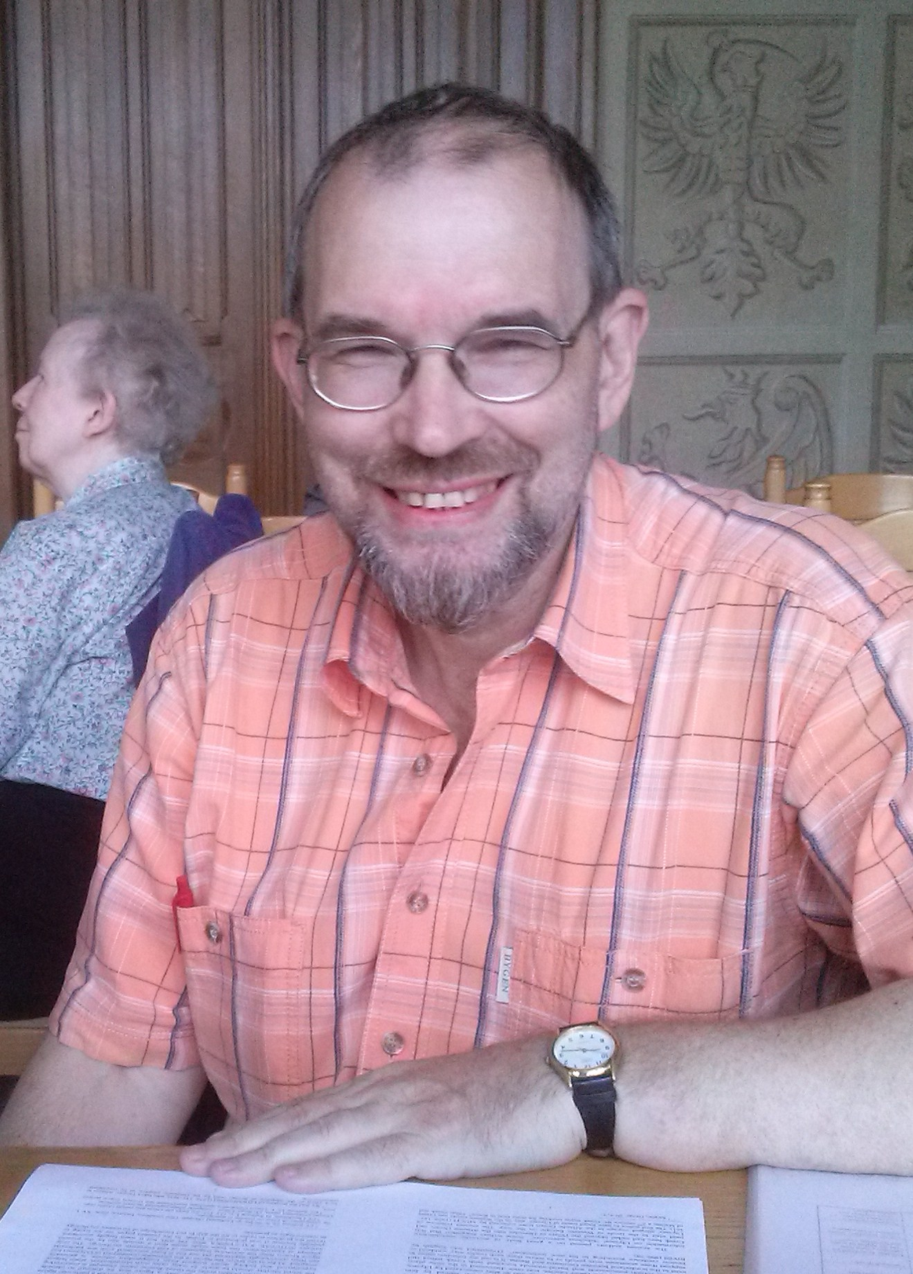 Prof. Václav Blažek as a participant of a scientific conference in Poland (June 2015)